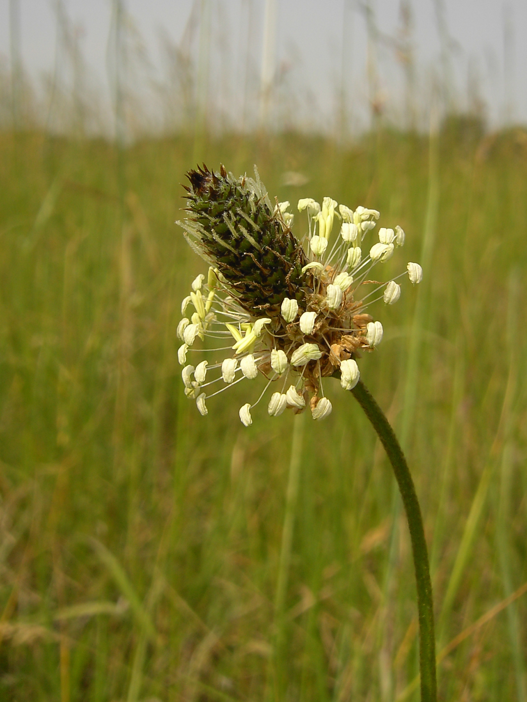 (inflorescense) Vosseslag, De Haan, Belgium 2006